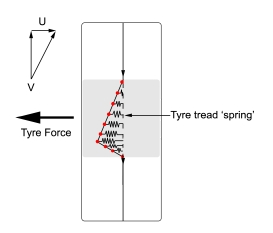 Tire tread element displacement and the resulting cornering force.